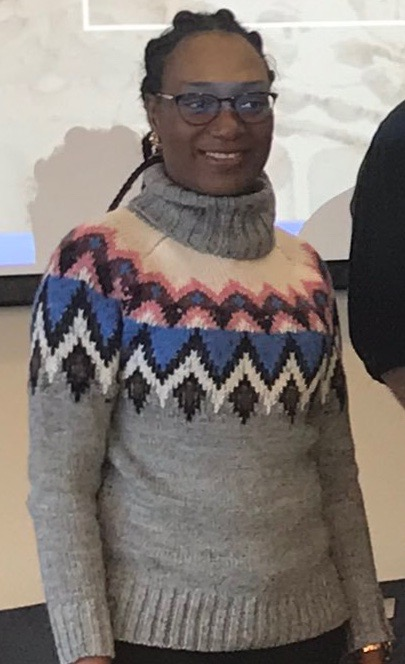 Professor Olakunbi Olasope at Memorial University (St. John's, Newfoundland) on May 7, 2019, where she delivered a talk entitled "With Oppression there is always a Clamour for Justice: Unmasking Antigone in Nigeria, Tegonni" at an international conference on "Classical Antiquity and Local Identities: from Newfoundland to Nigeria and Ghana"